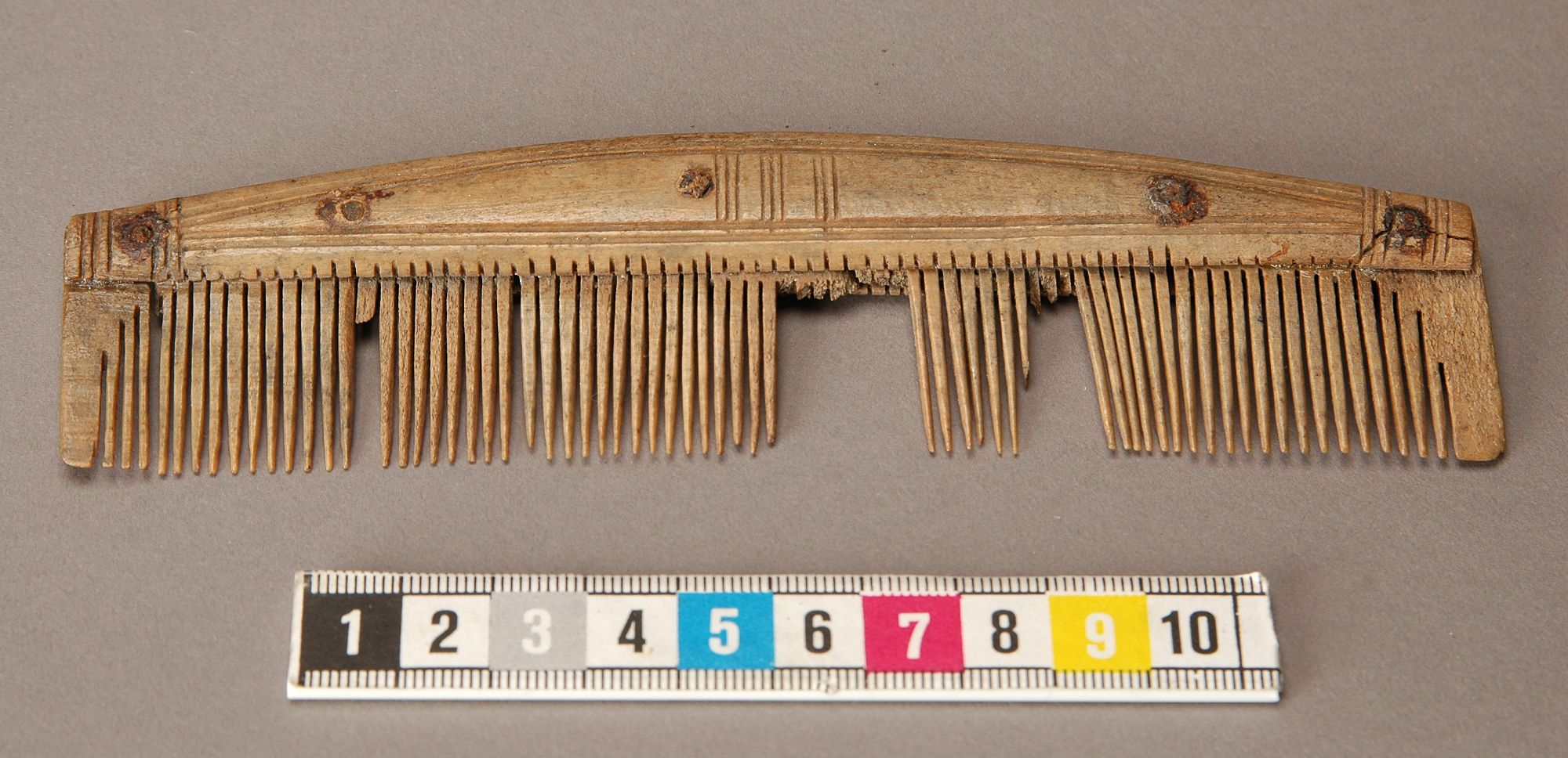 Comb in antler found in the Black Earths of Birka, Sweden